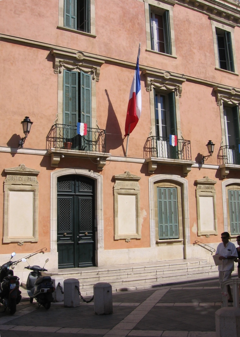 Town hall of Saint-Tropez (France).